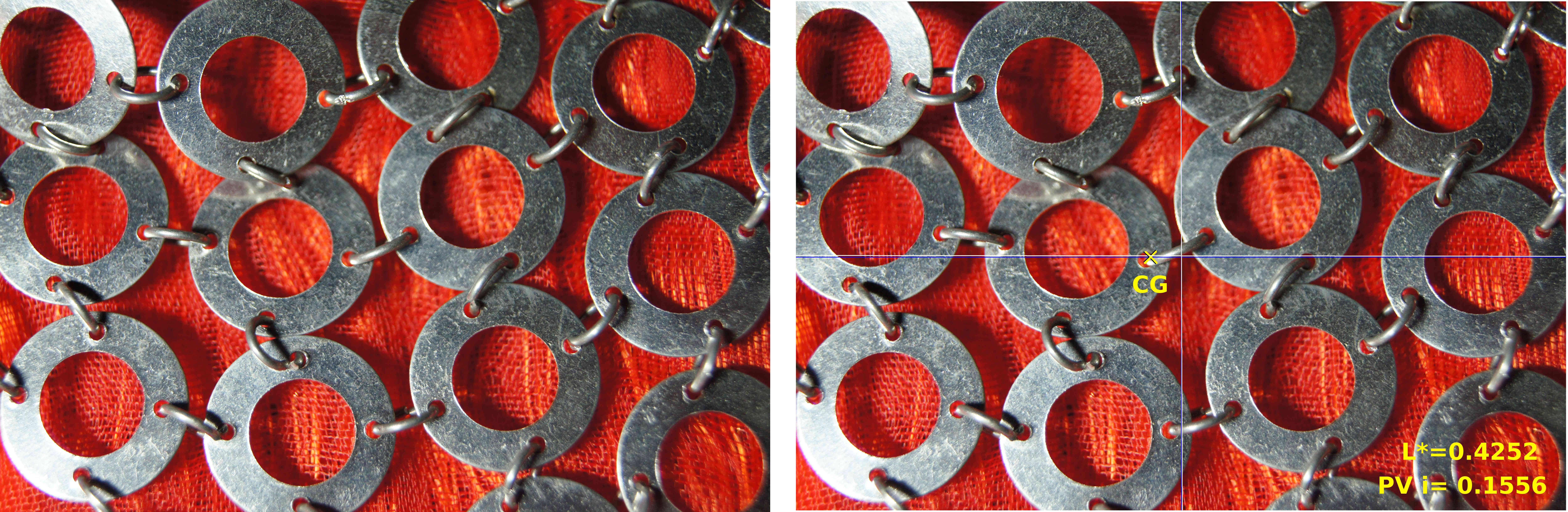 AROS METALICOS